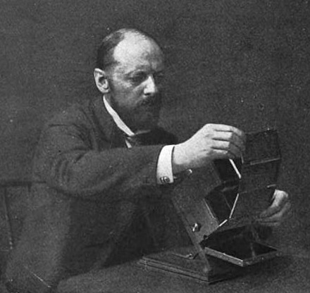 Frederic Eugene Ives (1856-1937) inserting a Kromogram into his Kromskop, circa 1899. The Ives Kromskop (pronounced "chrome-scope" and known generically as a chromoscope or photochromoscope) was a device used to view Kromograms, specially mounted sets of three black-and-white photographs taken through red, green and blue filters. It used corresponding colored glass filters to appropriately illuminate each photograph and transparent reflectors to visually combine them into a single full-color image. A monoscopic (2-D) "Junior Kromskop" is shown. The more common stereoscopic (3-D) model was standard.